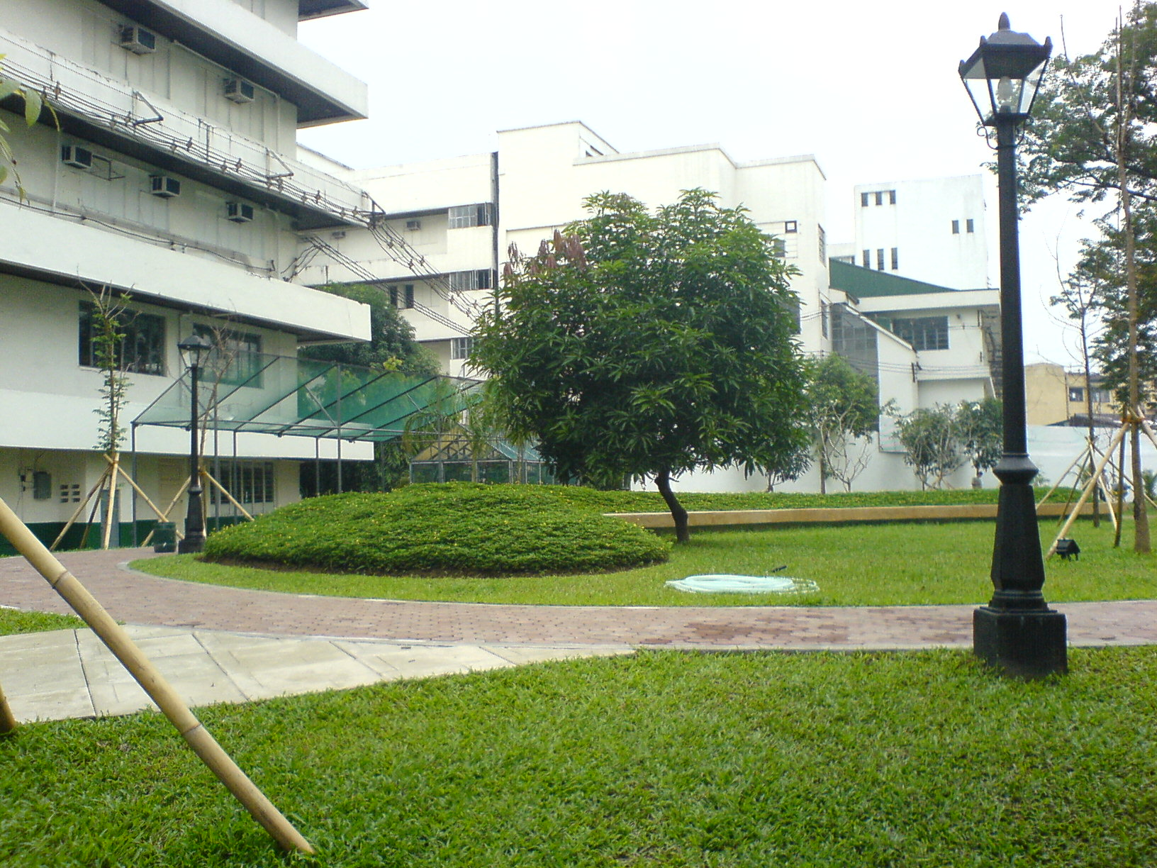 Tan Yan Kee at University of the East, Metro Manila, Philippines